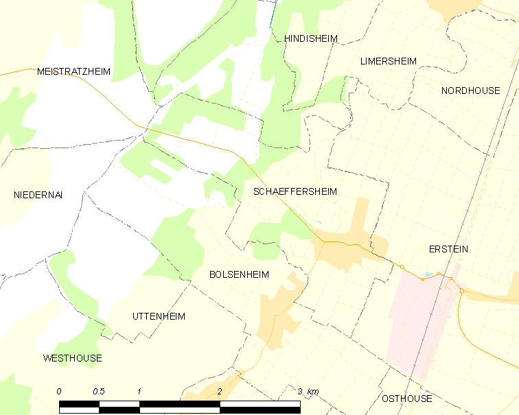 Map of French municipality